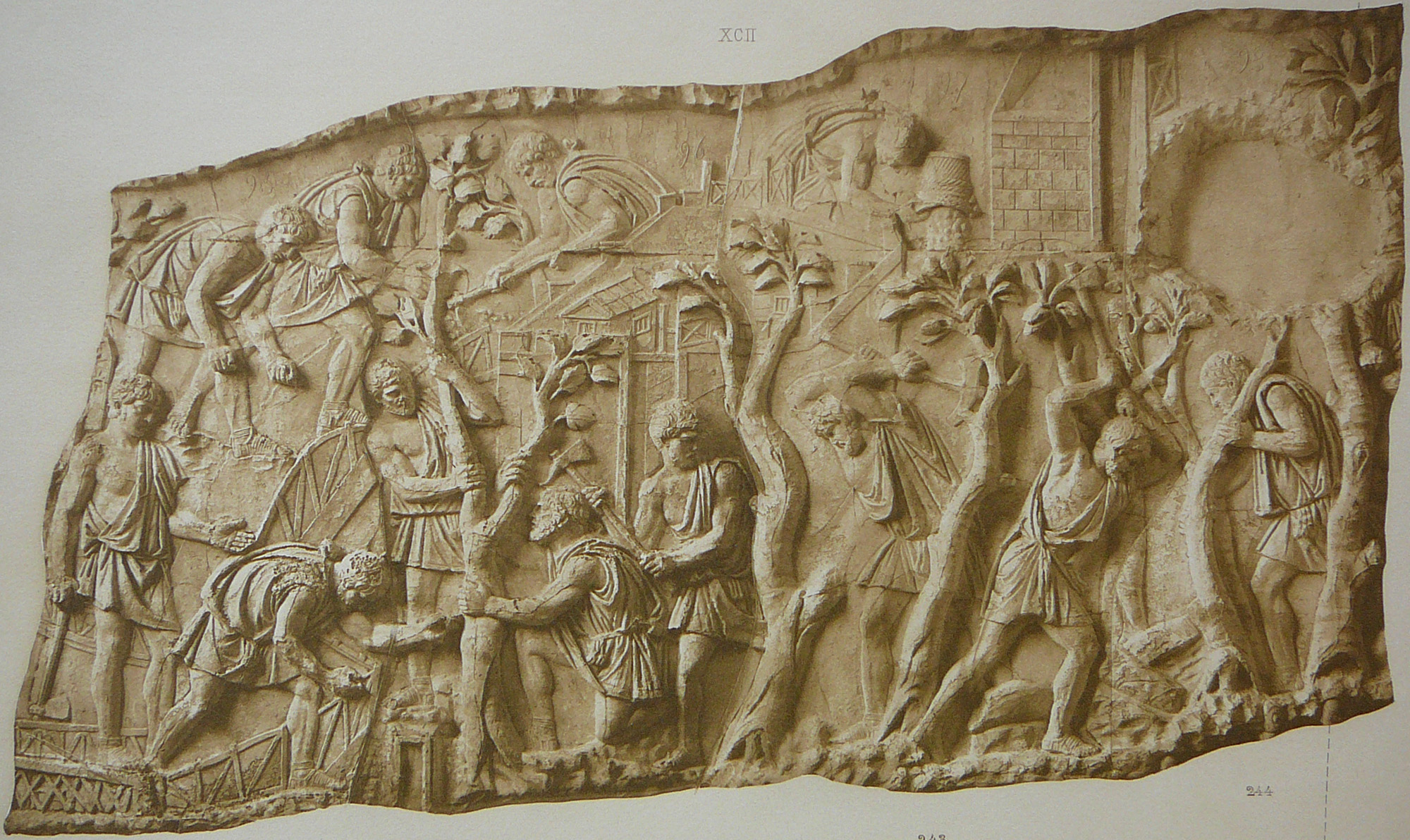 Road-building in the mountains (scene XCII)